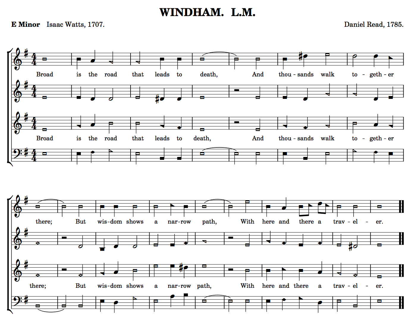 The tune "Windham" as it appears in The Sacred Harp, 1911 edition. (The work appears in almost identical form in other editions of the Sacred Harp.)